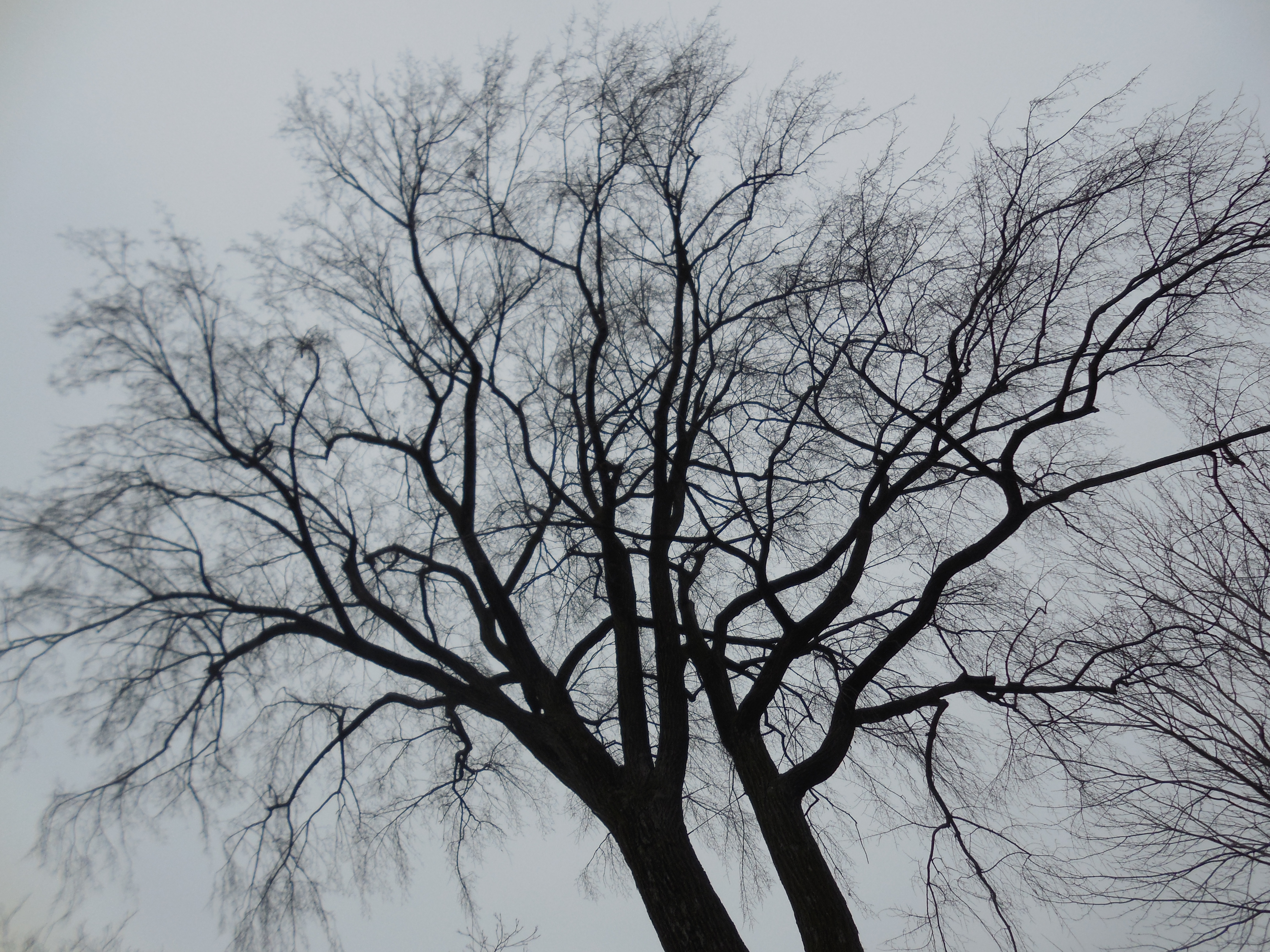 A Winter tree